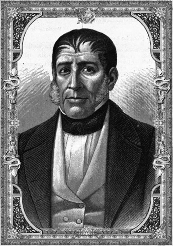 Self-portrait of José Joaquín Antonio Florencio de Herrera y Ricardos, Lithograph (1870-1907).